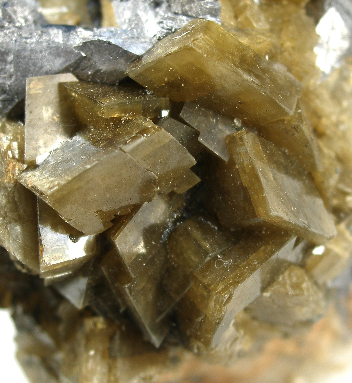 Galena, Quartz, Siderite Locality: Neudorf, Harzgerode, Harz Mts, Saxony-Anhalt, Germany (Locality at ) Size: cabinet, 13.2 x 9.0 x 5.4 cm Galena and Siderite on Quartz Crystals of sharp, lustrous, complex galena cover a matrix of quartz and are associated here with the desirable brown, tranclucent siderite that is classic for this old historic locality. The galenas are typical Neudorf style, extremely lustrous with sharp terminal faces and complex sides, sometimes in elongated crystals, here to 4 cm. This MAJOR German galena specimen was purchased by a prominent German collector from American dealer Rick Smith in 1970. This was the same era in which he was trading many old specimens out of the American Museum collections, and in any case it is certainly from an old source as this habit and style is characteristic of the most sought-after Neudorf specimens, from the mid to late 1800s. Such large, robust specimens are very hard to find today on the market. They ONLY come from major old collections, and the occasional museum deaccession. The piece is in remarkable condition with only trivial and peripheral edge wear, and one area near the bottom of broken galena (although it may simply be contacting and not true damage there as parts of that irregular area look crystallized on a micro scale). Even so, I have seen few CABINET sized examples of any quality; and we regard this as a major specimen.